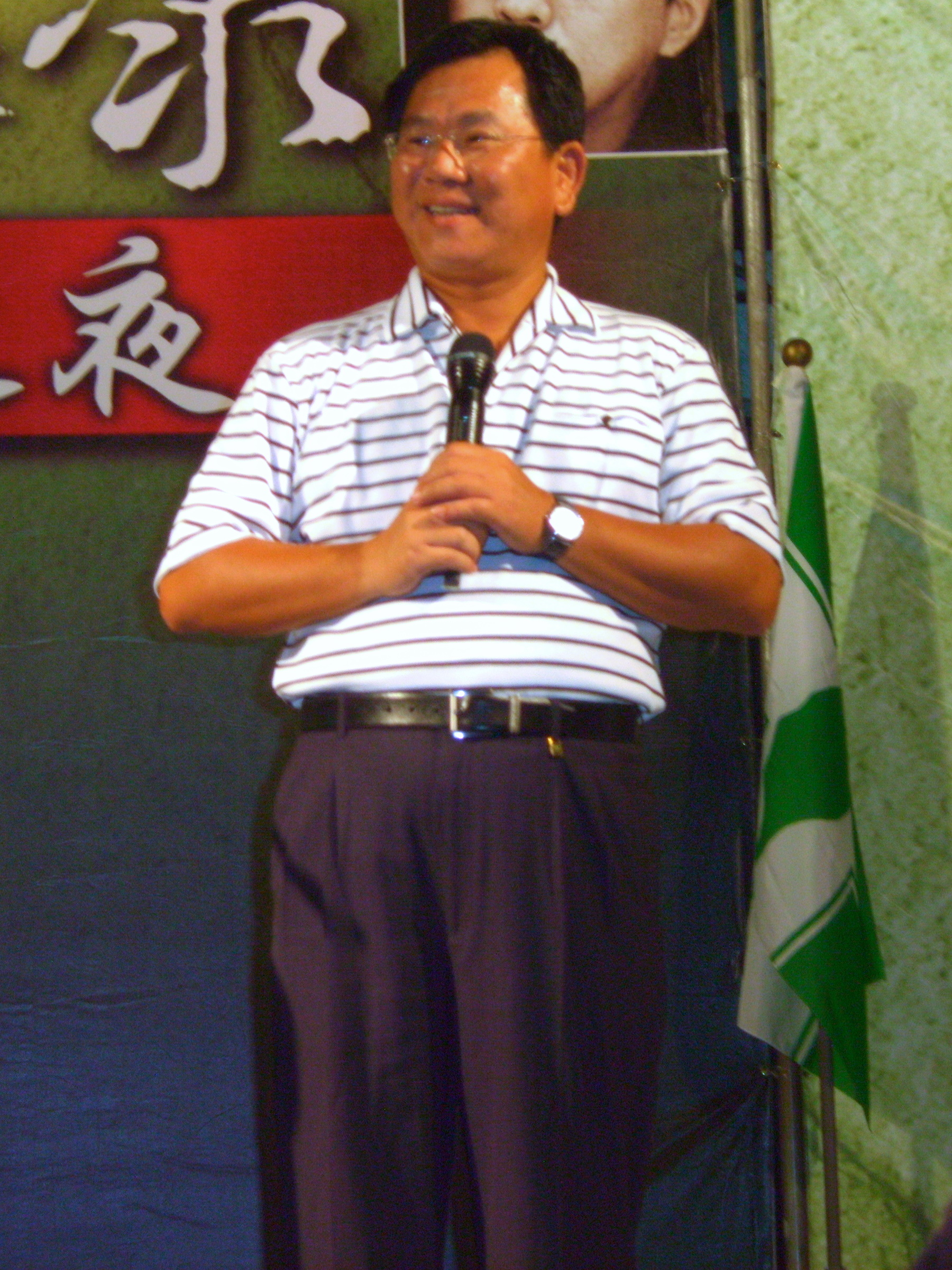 Chen Ming-wen. Taken at "2007 DPP Long Forever Unite Night".